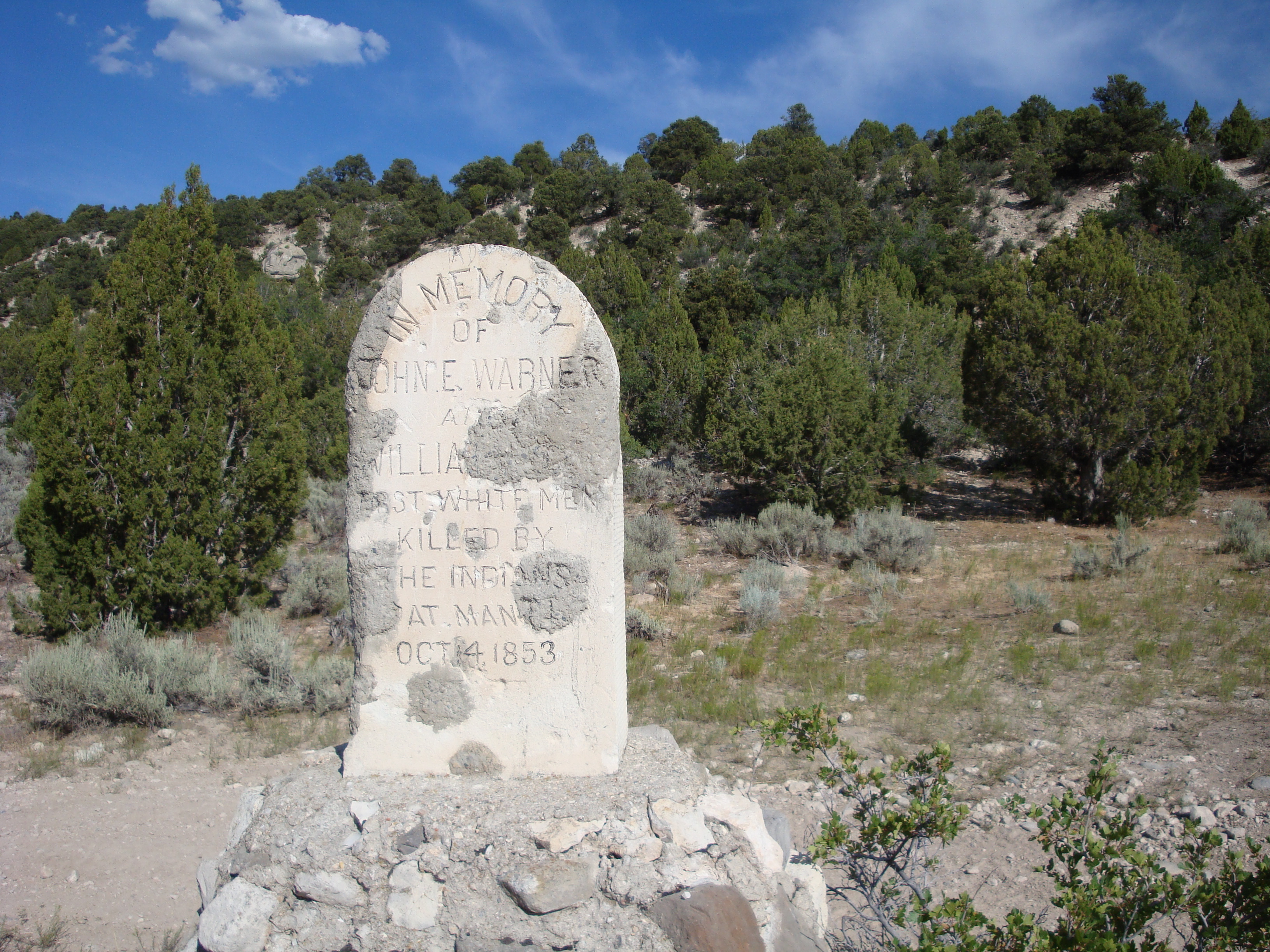 Monument to remember first settlers killed by Indians in Manti Utah in 1853. Previously there was a grist mill near this location.